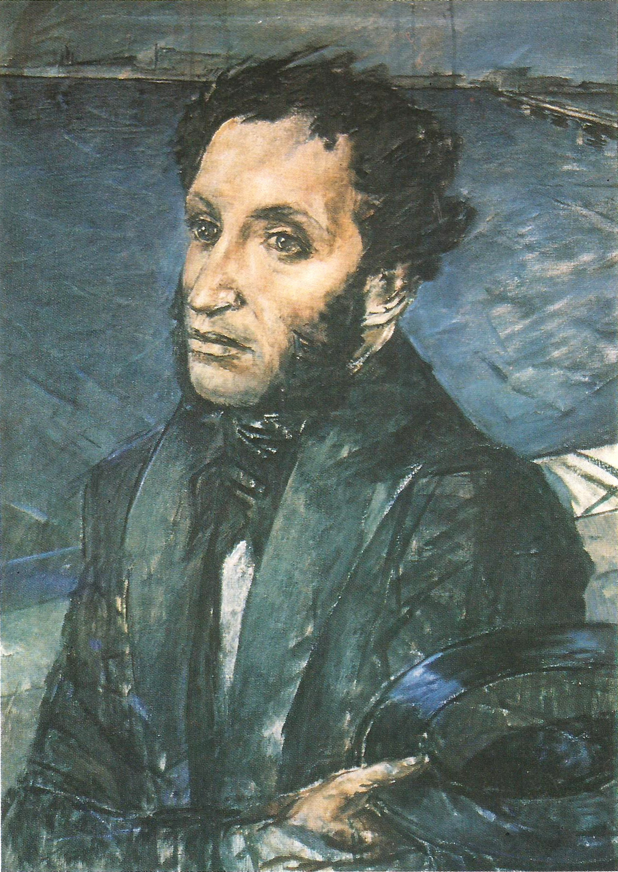 Pushkin in Petersburg oil on canvas, 71 x 54 cm The painting is located in the State Museum of A.S. Pushkin, Moscow